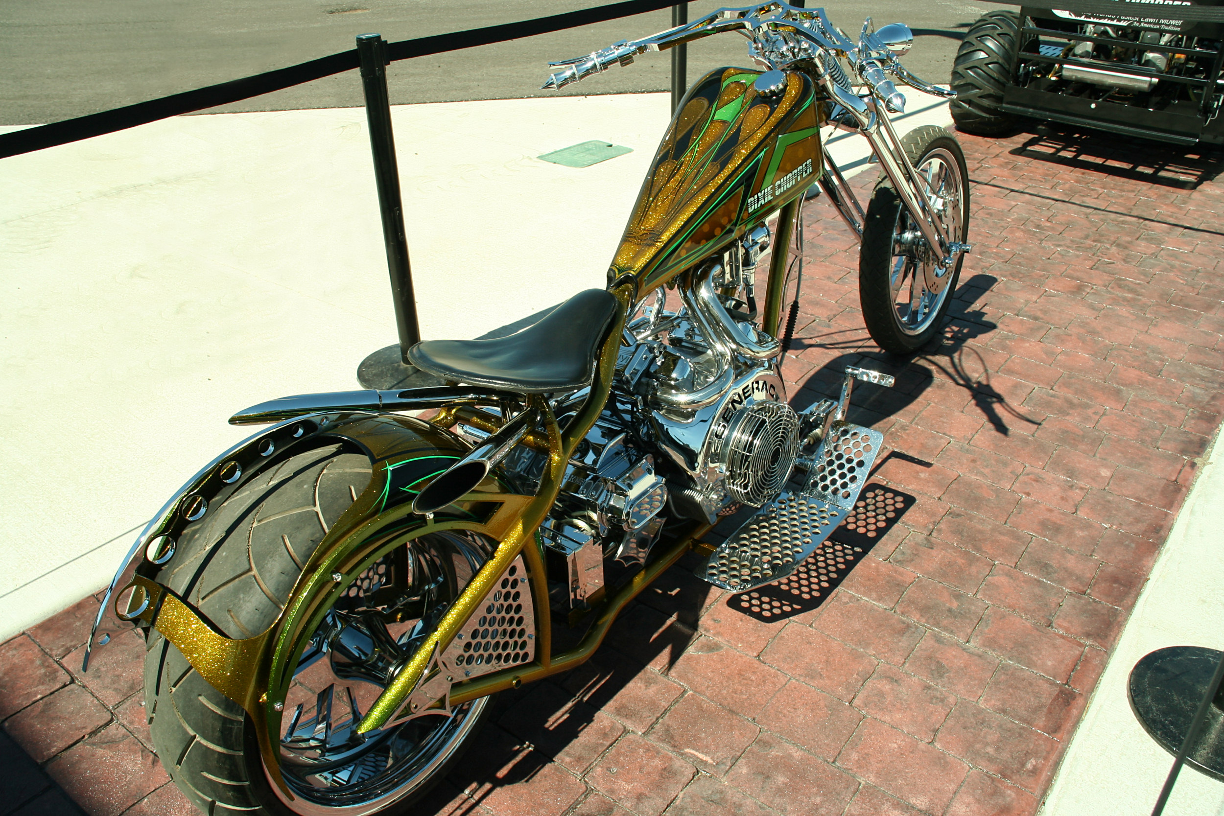 Dixie Chopper (lawn mowers) custom motorcycle by Orange County Choppers on display at a lawn mower retailer in Indiana.